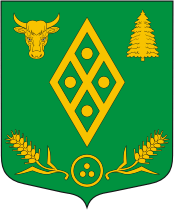 Volosovo rayon (Leningrad oblast), coat of arms